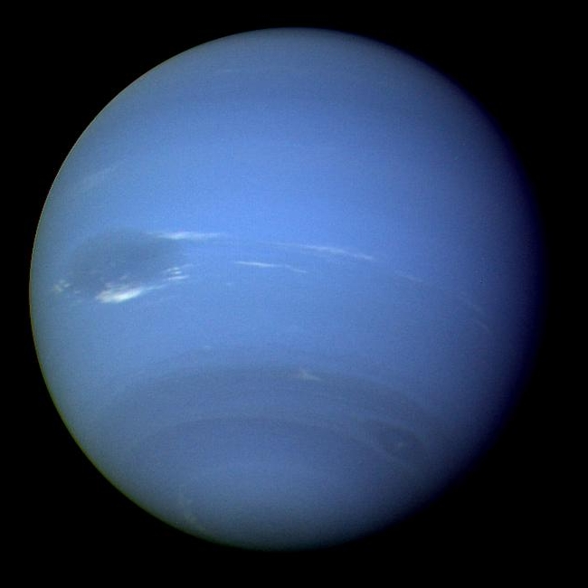 NeptuneOriginal Caption Released with Image: During August 16 and 17, 1989, the Voyager 2 narrow-angle camera was used to photograph Neptune almost continuously, recording approximately two and one-half rotations of the planet. These images represent the most complete set of full disk Neptune images that the spacecraft will acquire. This picture from the sequence shows two of the four cloud features which have been tracked by the Voyager cameras during the past two months. The large dark oval near the western limb (the left edge) is at a latitude of 22 degrees south and circuits Neptune every 18.3 hours. The bright clouds immediately to the south and east of this oval are seen to substantially change their appearances in periods as short as four hours. The second dark spot, at 54 degrees south latitude near the terminator (lower right edge), circuits Neptune every 16.1 hours. This image has been processed to enhance the visibility of small features, at some sacrifice of color fidelity. The Voyager Mission is conducted by JPL for NASA's Office of Space Science and Applications.